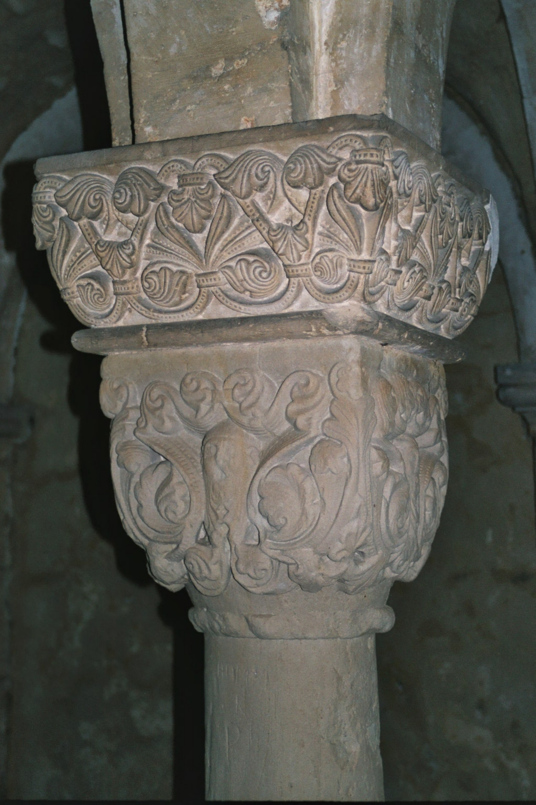 Konradsburg (Falkenstein im Harz), into the monastery church